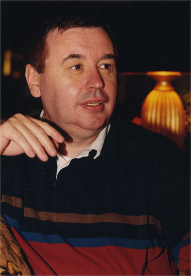 Enrique Mrak